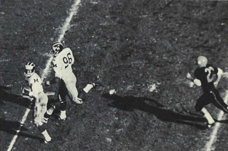 Photograph of Mel Anthony, accompanied by [{Tom Mack (No. 96) running 84 yards for a touchdown in the 1965 Rose Bowl.